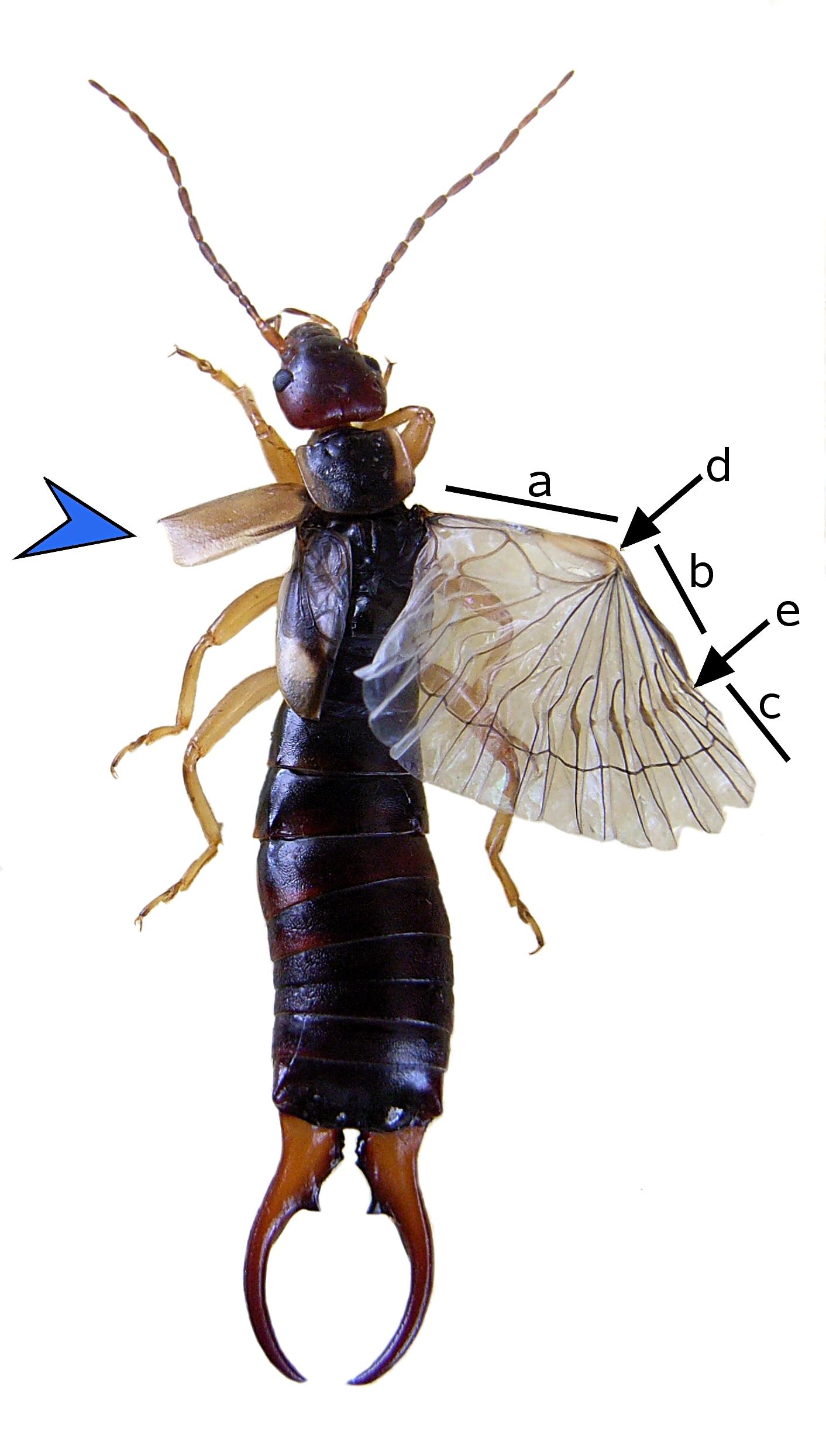 earwig, left forwing opened, left hindwing folded, right forwing cut, right hindwing half folded. Folding: The hindwing is folded fanlike parallel to the lines b and c, then bended along prolongation of arrow e, then the two piles are bended round the articulation (arrow d) and deposed under the part parallel to a.